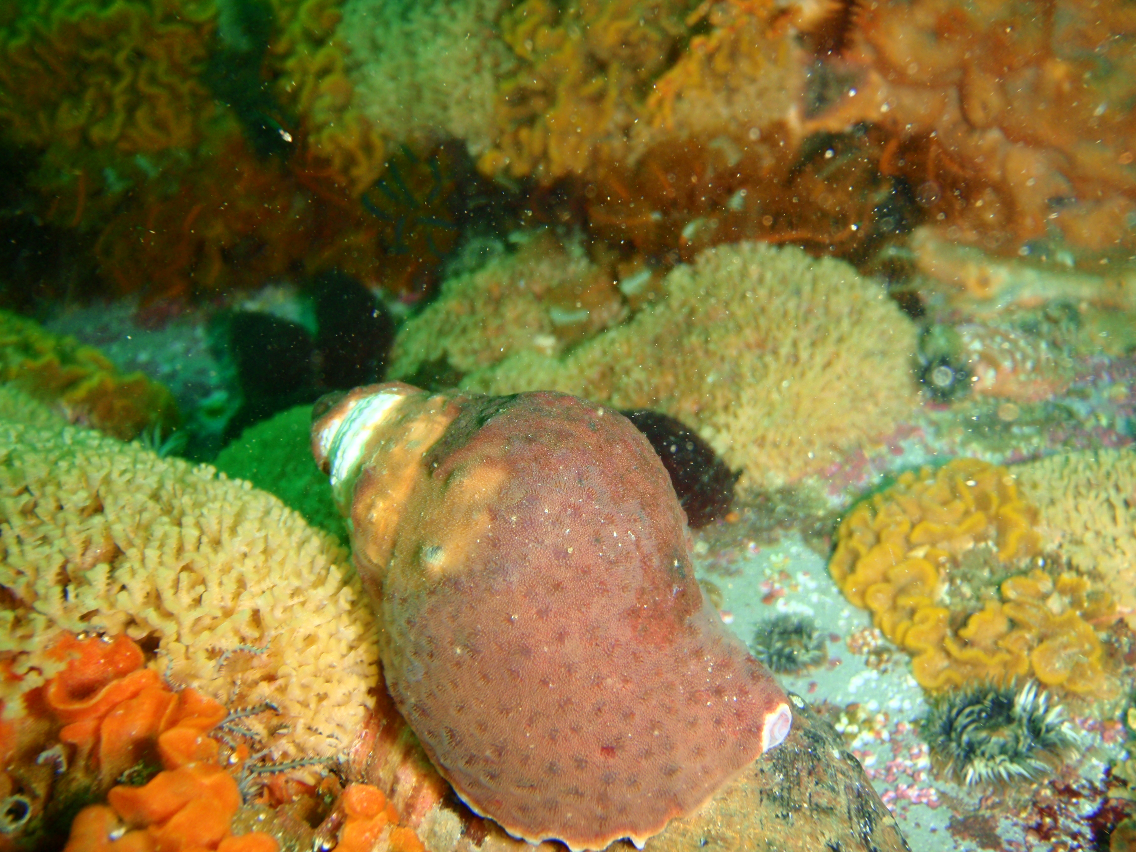 Whelk at the wreck of SAS Pietermaritzburg at Miller's Point on the Cape Peninsula